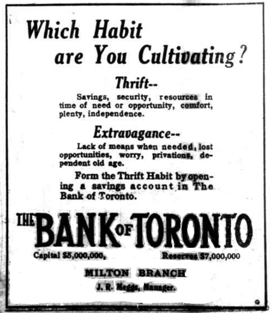 Milton, Ontario newspaper ad for the Bank of Toronto.